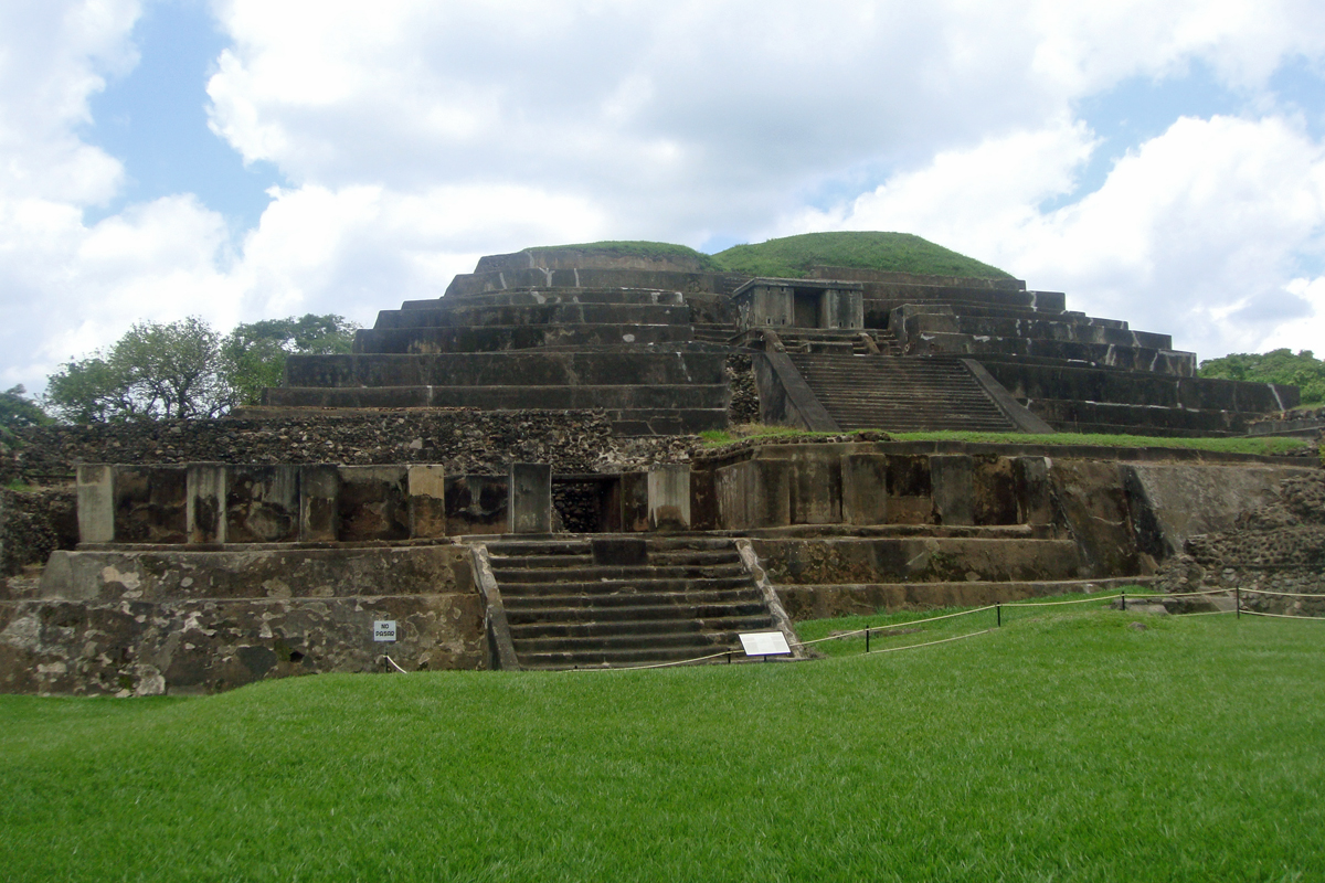 Tazumal main pyramid (structure B1-1), western side. Chalchuapa, El Salvador